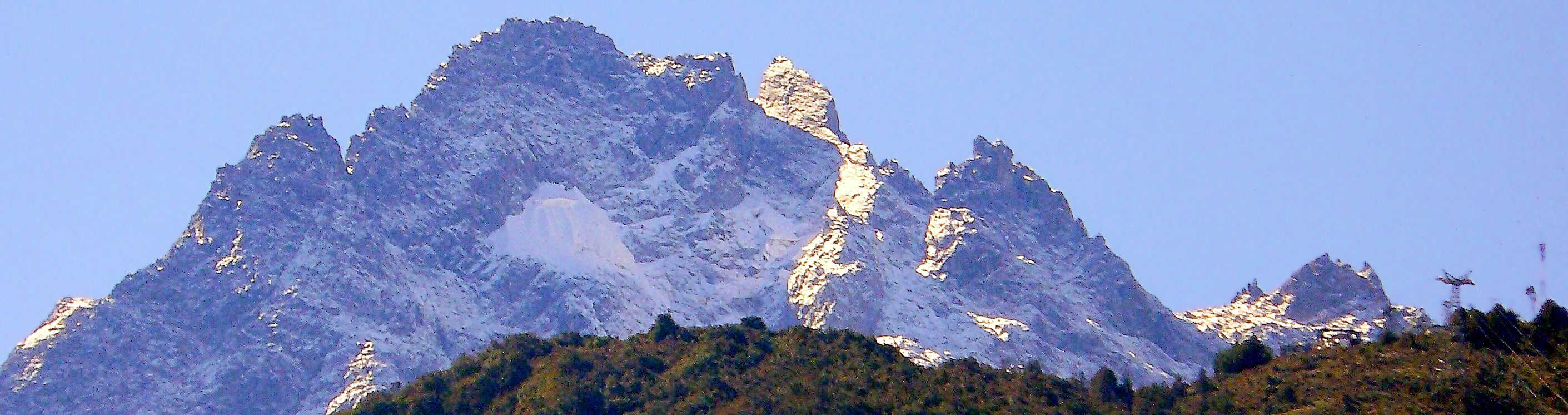 Bolívar Peak, highest elevation of Venezuelan Andes. Mérida, Venezuela